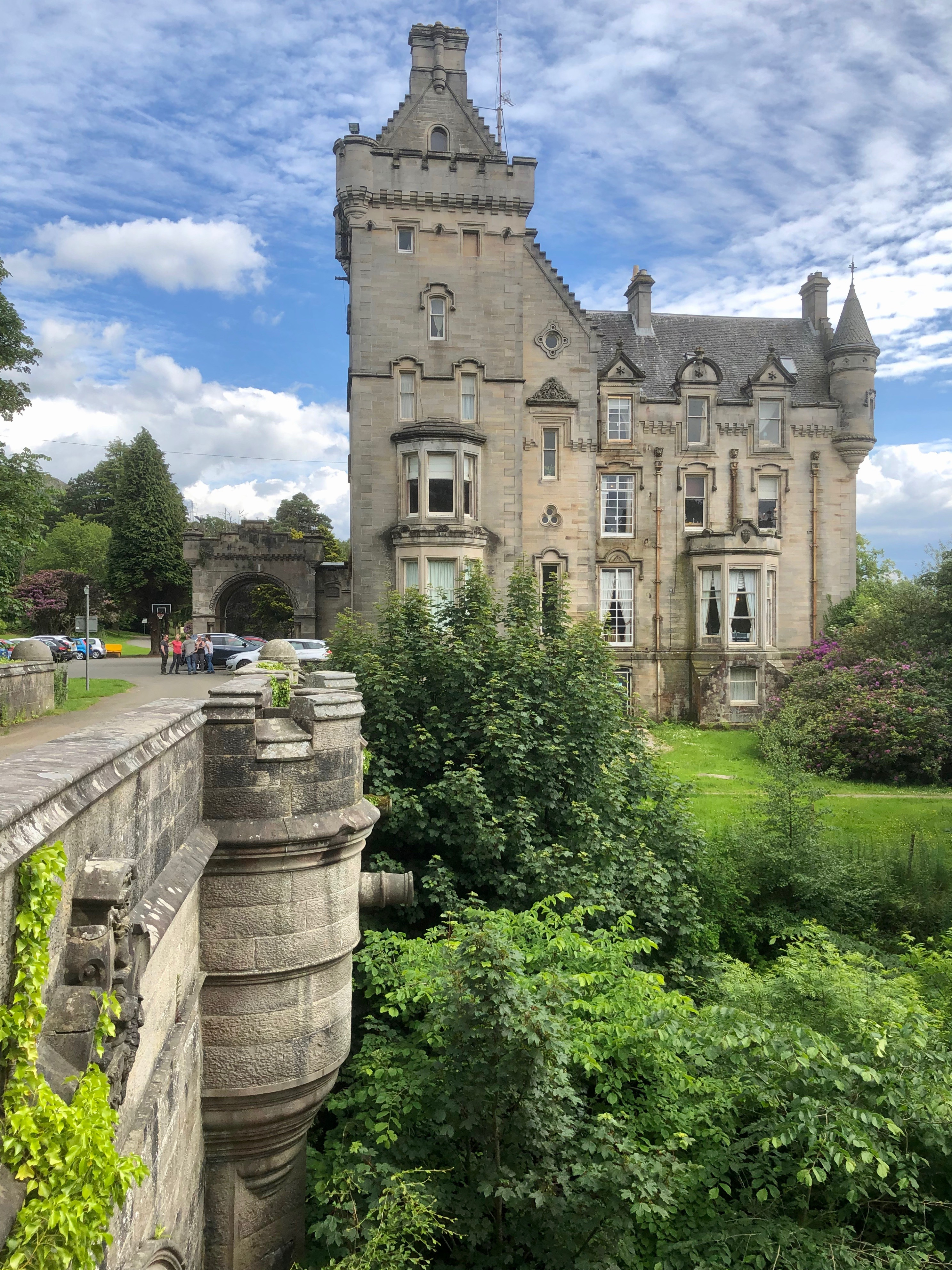 Overtoun Bridge leads up to Overtoun House over a deep ravine